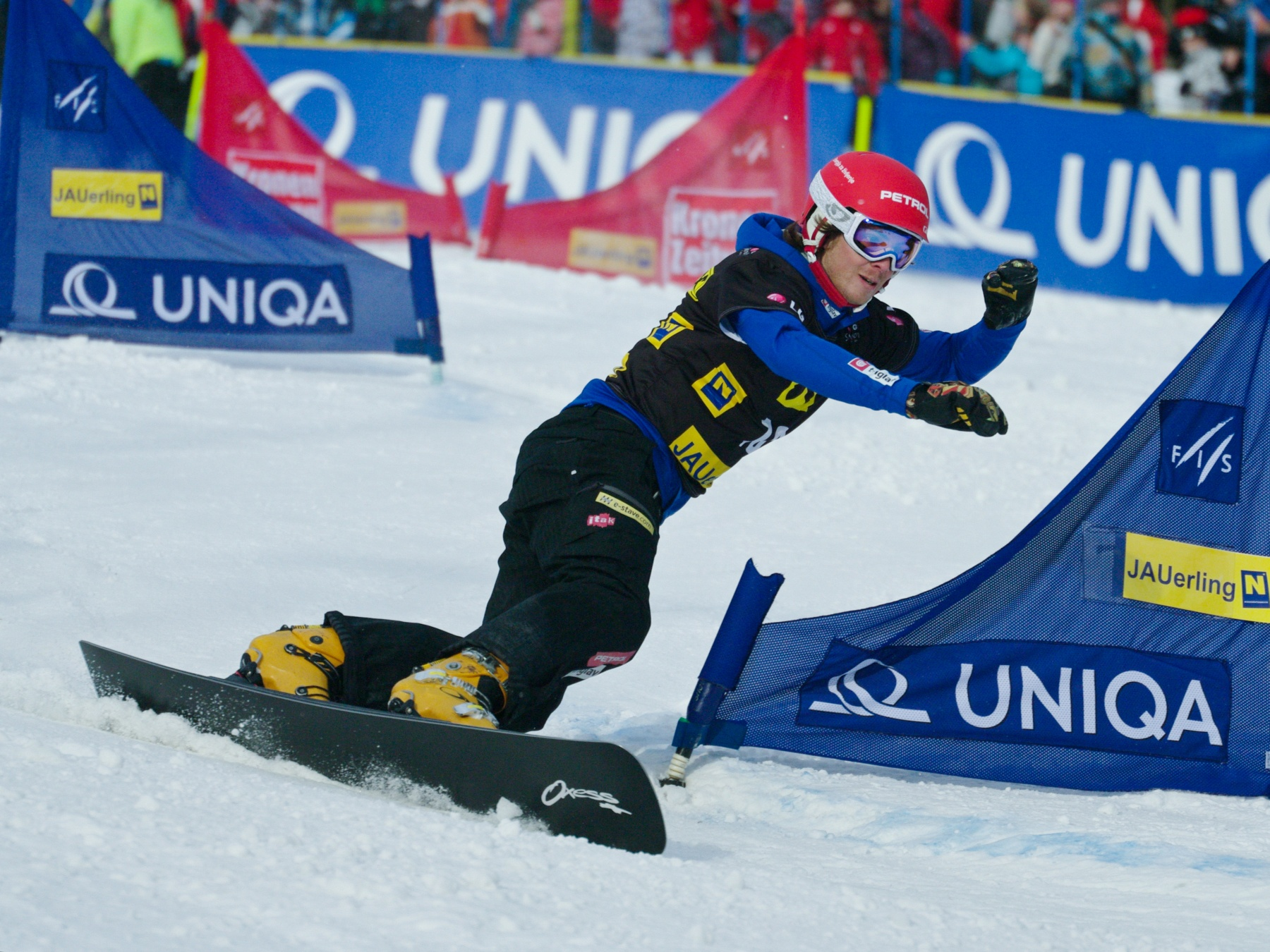 Slovenian snowboarder Žan Košir in the qualification round of the World Cup Parallel Slalom at the Jauerling in Austria on 13 January 2012.